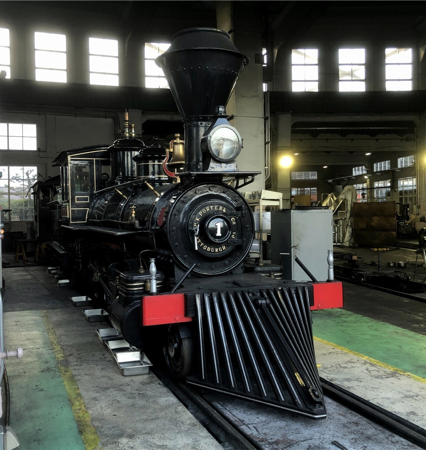 Japanese Government Railways Class 7100 Yoshitsune at the Roundhouse in the Kyoto Railway Museum